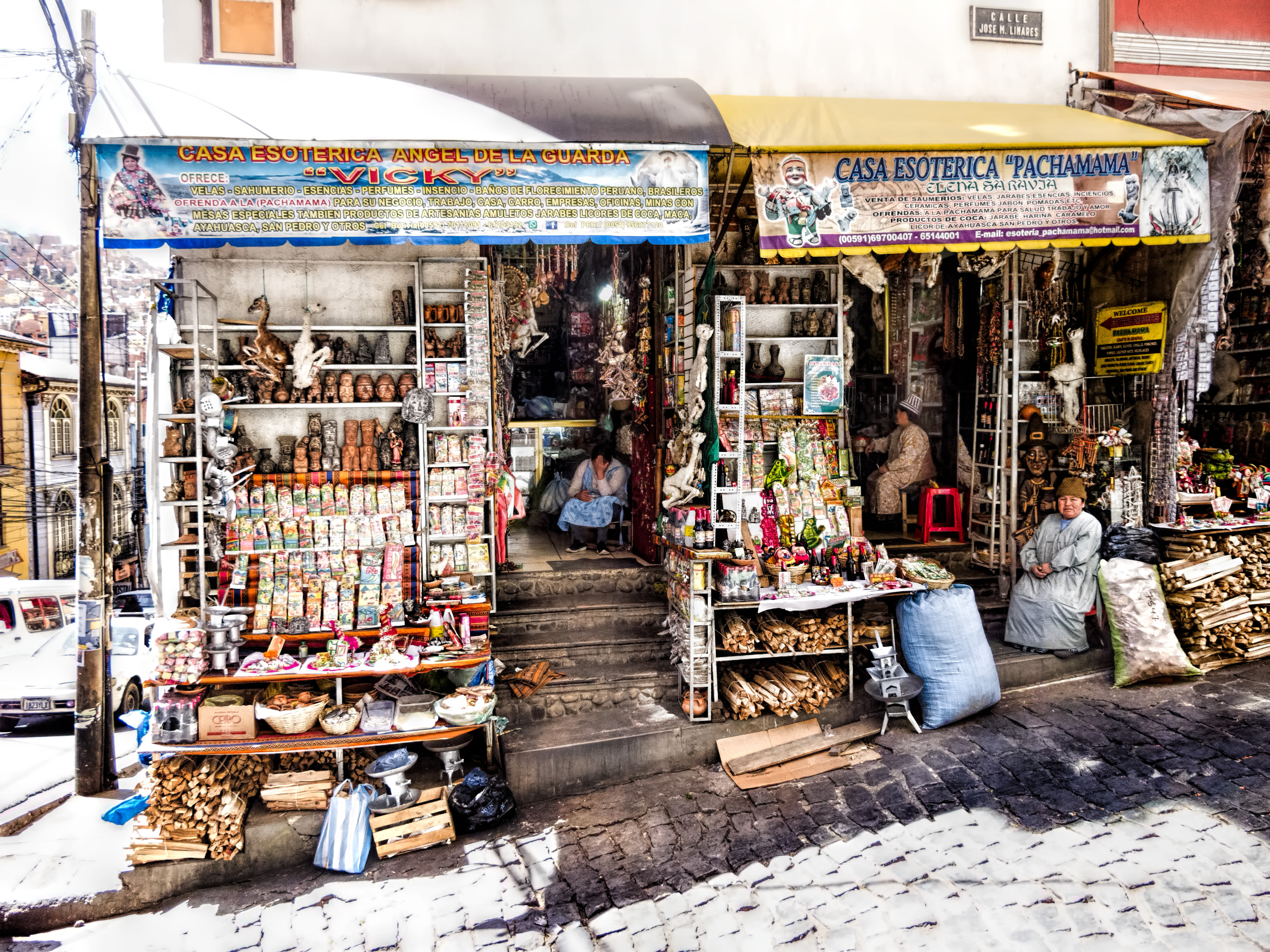 The Witches' Market (Mercado de las Brujas, Mercado de Hechicería) is an area with a concentration of stores selling herbal and folk remedies along with items used in the practice of ancient Aymaran beliefs such as amulets, potions, llama fetuses, and owl feathers. The main god of the indigenous peoples of the Andes is Pachamama also known as Mother Earth. La Paz (elev.3,240m/11,942ft) was founded in the Andes by the Spaniards in 1548 in a canyon created by the Choqueyapu River. The administrative capital of Bolivia shifted to La Paz in 1898 while Sucre remained the constitutional and judiciary capital. On Google Earth: Witches’ Market 16°29'45.83"S, 68° 8'20.02"W